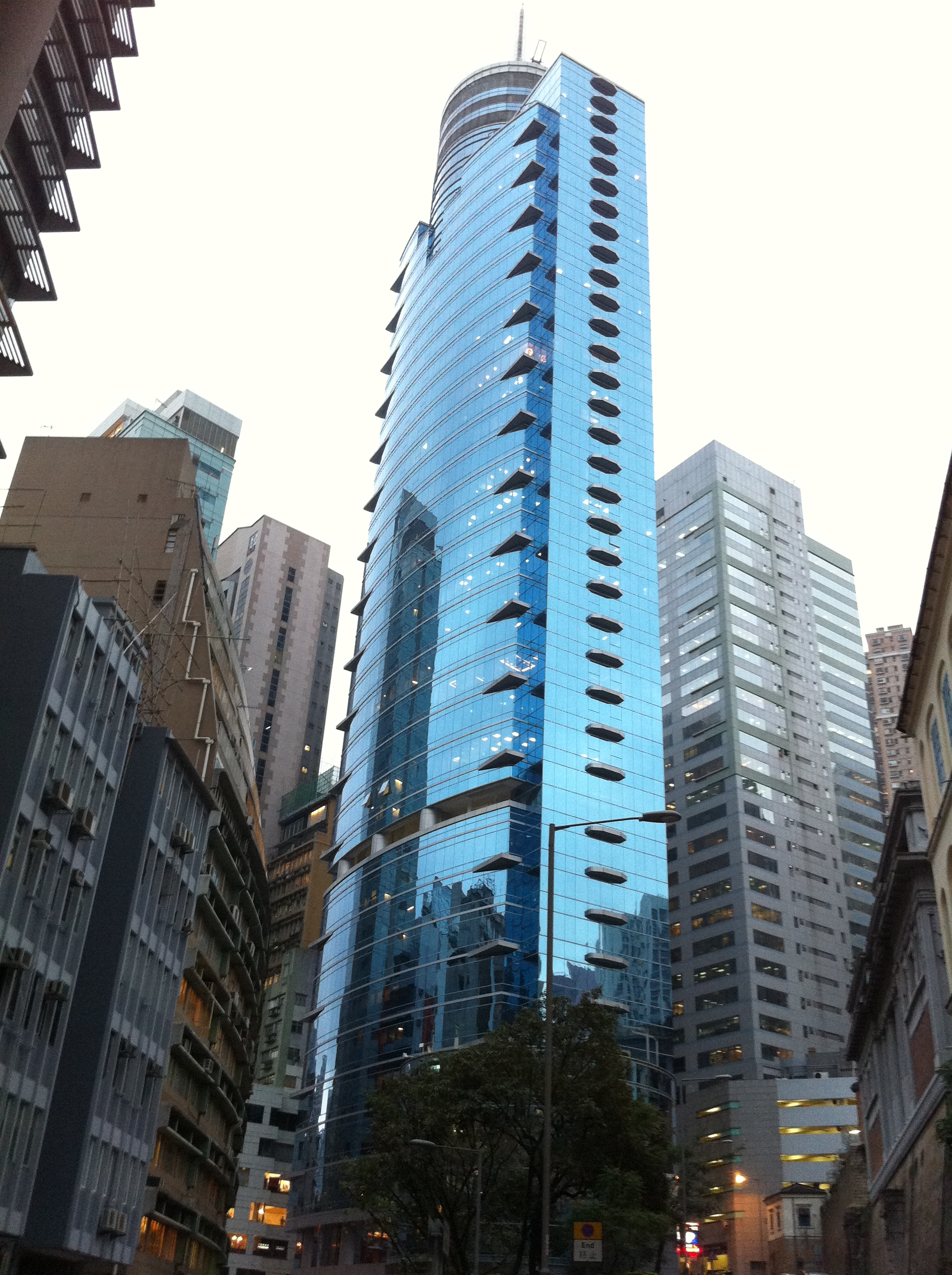 Wyndham Street, Central, Hong Kong